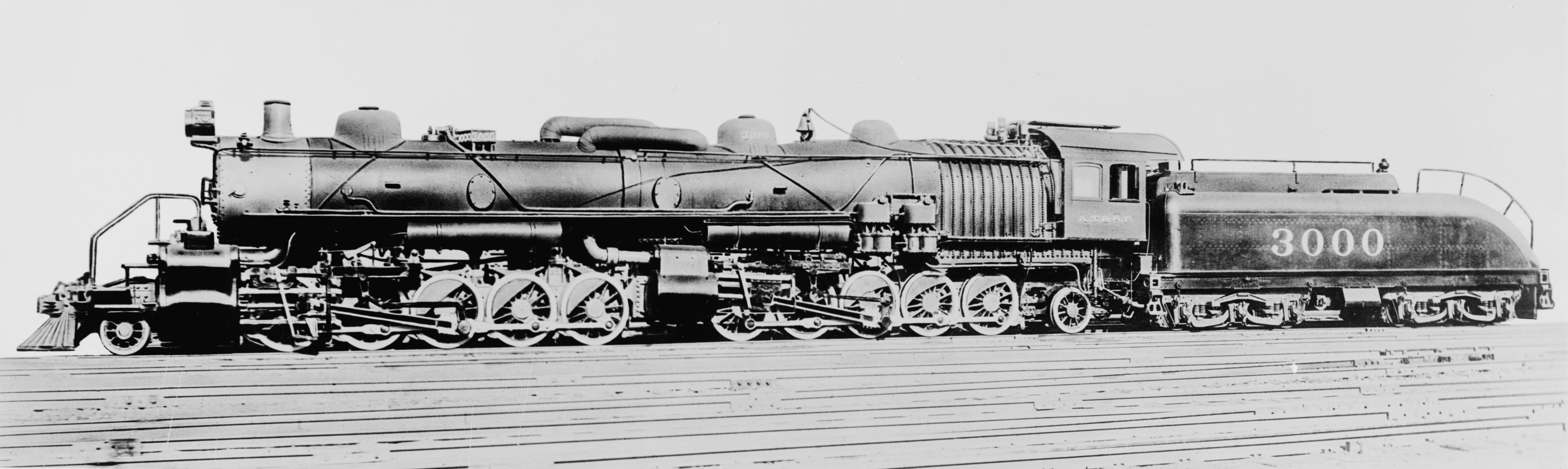 New Mallet articulated compound engine on the Santa Fe Medium: 1 negative : glass ; 8 x 10 in. Part of: Detroit Publishing Company Photograph Collection Reproduction Number: LC-D4-72516 (b&w glass neg.) Call Number: LC-D4-72516 [P&P] Repository: Library of Congress Prints and Photographs Division Washington, D.C. 20540 USA Notes: o Detroit Publishing Co. no. 072516. o Gift; State Historical Society of Colorado; 1949.